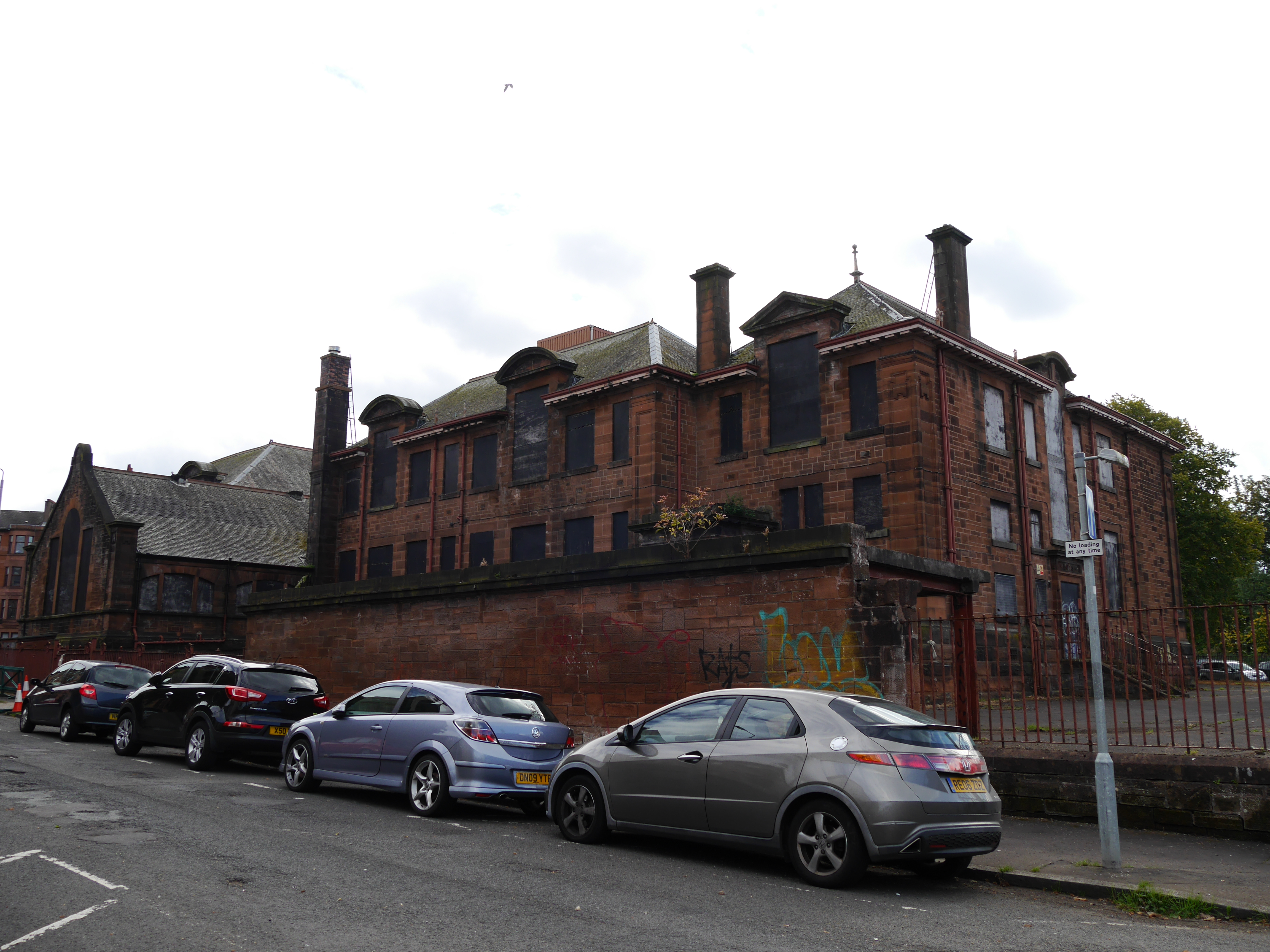 Holmlea Primary School, 352-362 HOLMLEA ROAD, Glasgow Wikidata has entry Q17813746 with data related to this building.